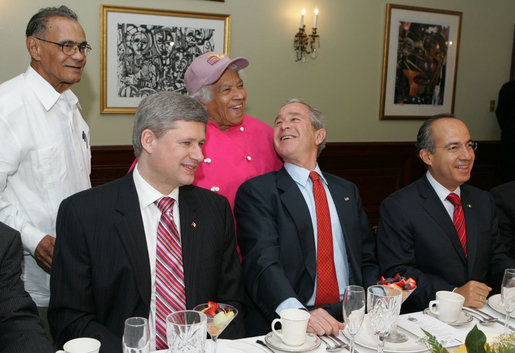 President George W. Bush (seated center) thanks Dooky Chase's restaurant owners Leah Chase (standing center) and Dooky Chase (standing right) Tuesday morning, April 22, 2008 in New Orleans, where President Bush hosted a breakfast meeting with President Felipe Calderon of Mexico (seated right) and Canadian Prime Minister Stephen Harper (seated right) during the final day of the 2008 North American Leaders' Summit. White House photo by Joyce N. Boghosian